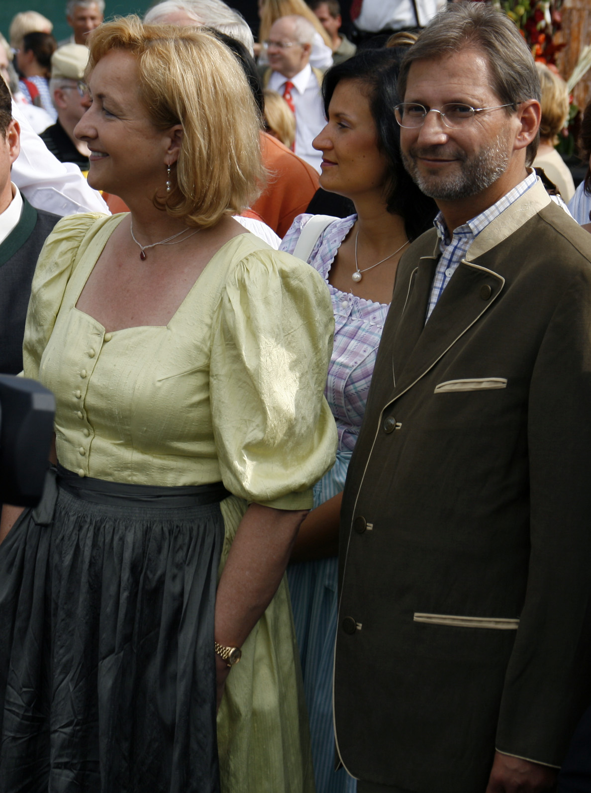 Austrian politicians Maria Fekter, Silvia Fuhrmann und Johannes Hahn at the annual harvest festival of the ÖVP-Bauernbund at the Heldenplatz in Vienna)